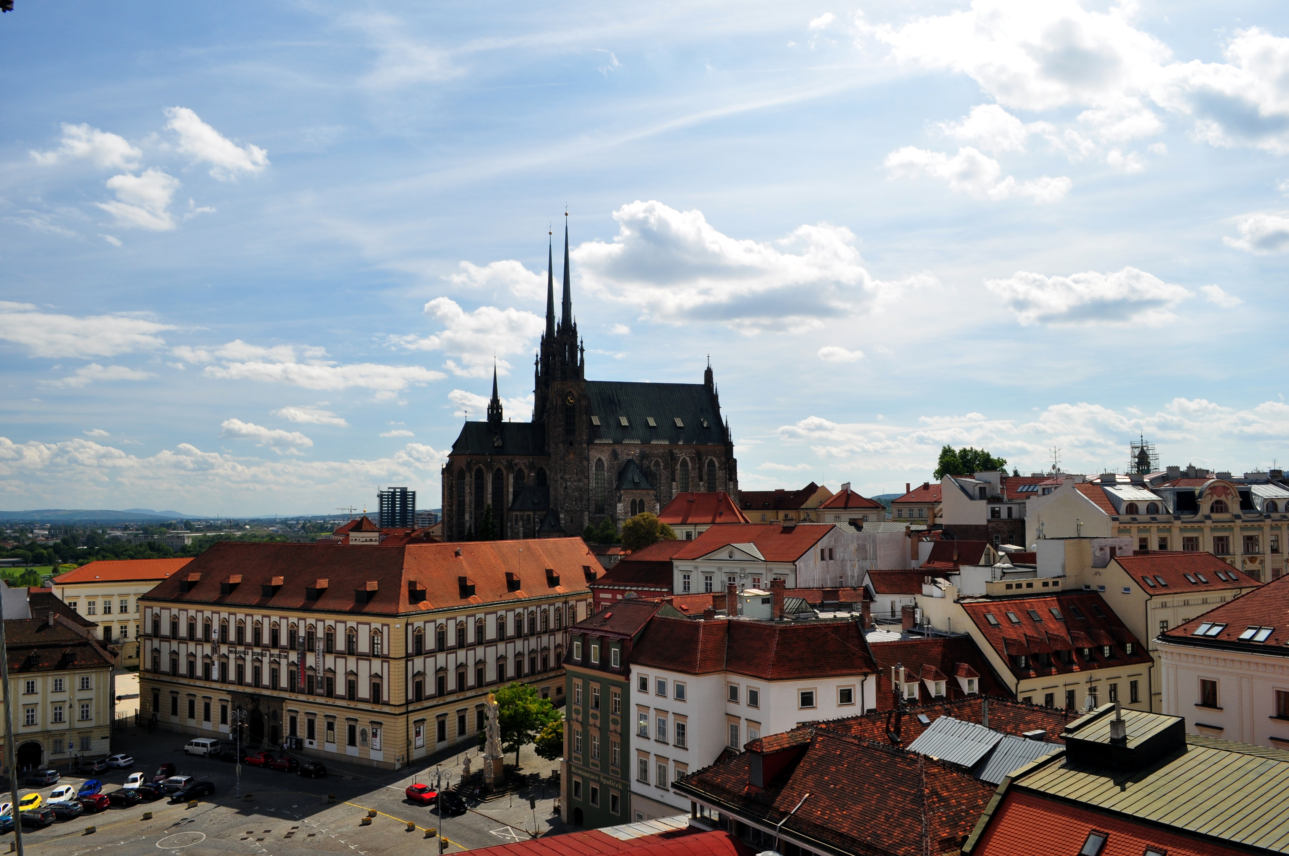 Cathedral of Saints Peter and Paul in Brno